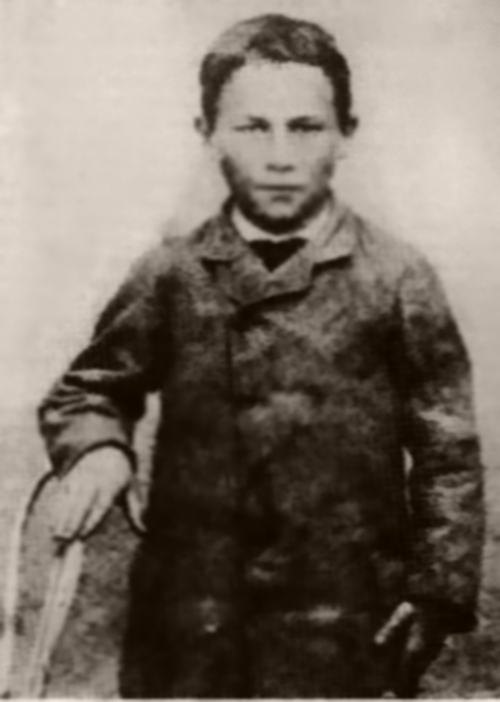 The boy Joseph Meister, first human being vaccinated against rabies in 1885.